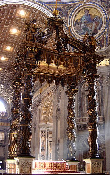 Bernini's baldacchino, inside Saint Peter's Basilica, Vatican City.